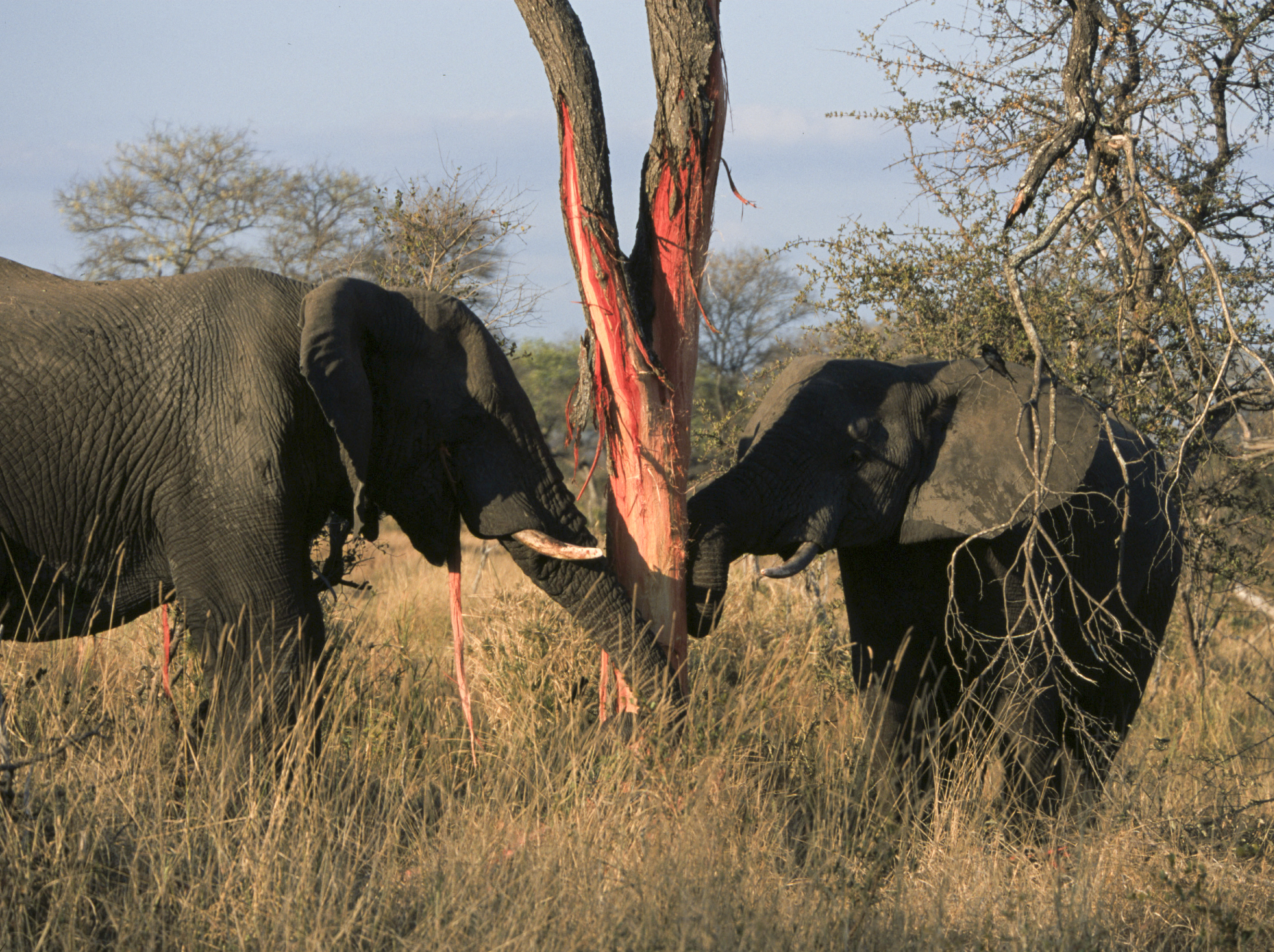 African Bush Elephant (Loxodonta Africana) in Kruger National Park, South Africa stripping and eating tree bark.